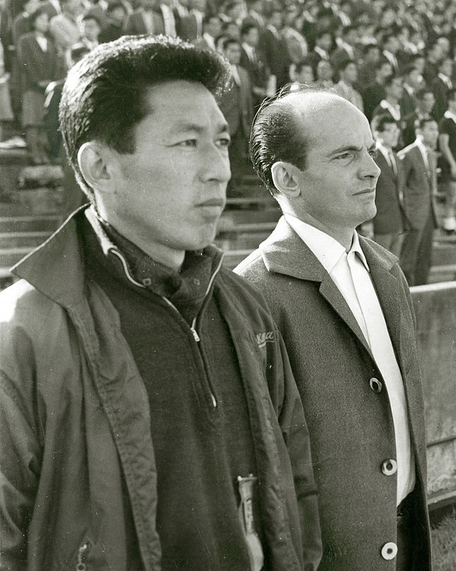 Coach Dettmar Cramer (right) and Ken Naganuma of Japan looks on during the Tokyo International Sports competition match between Japan and Vietnam at Prince Chichibu Rugby Stadium on October 12, 1963 in Tokyo, Japan.